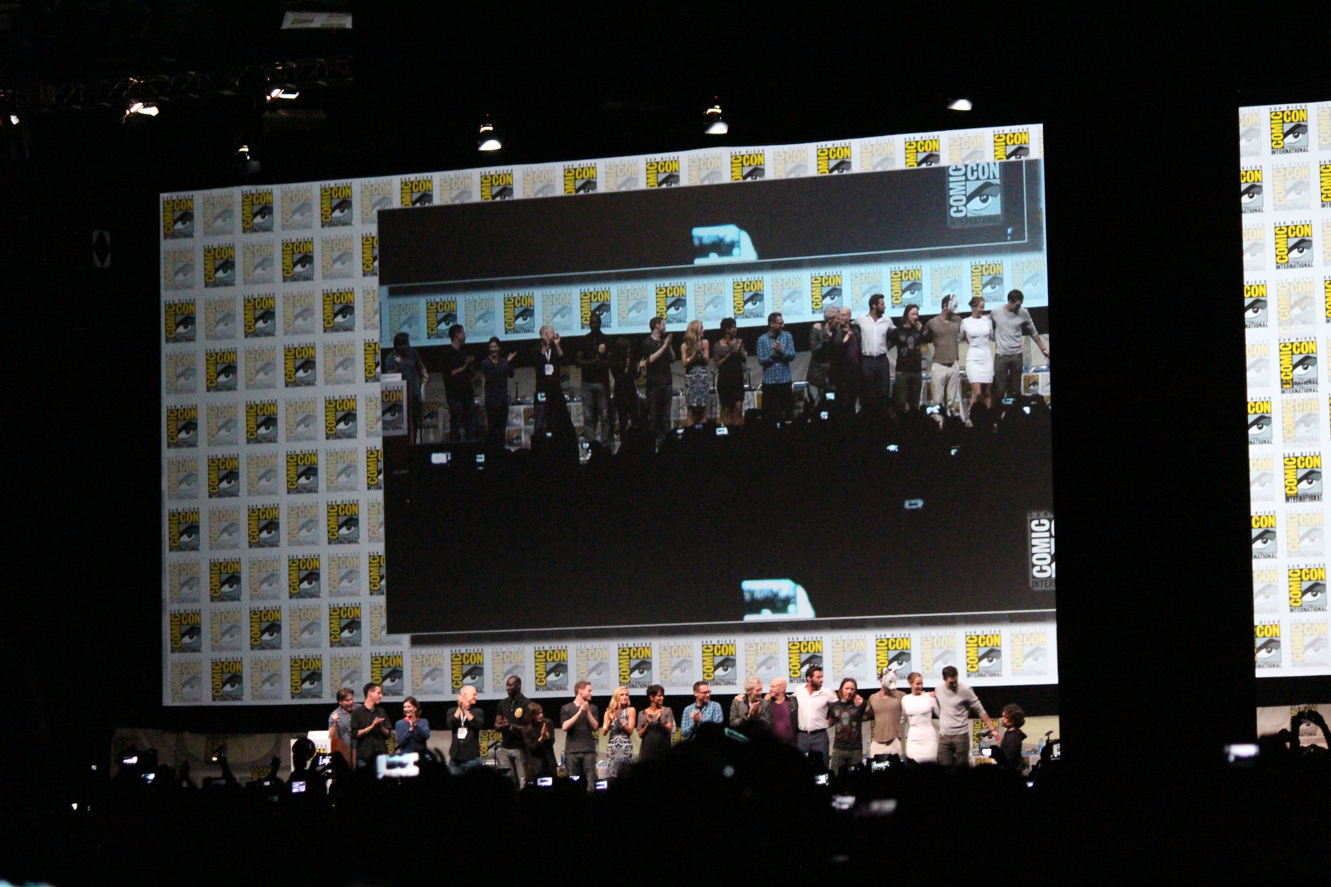 Comic-Con 2013